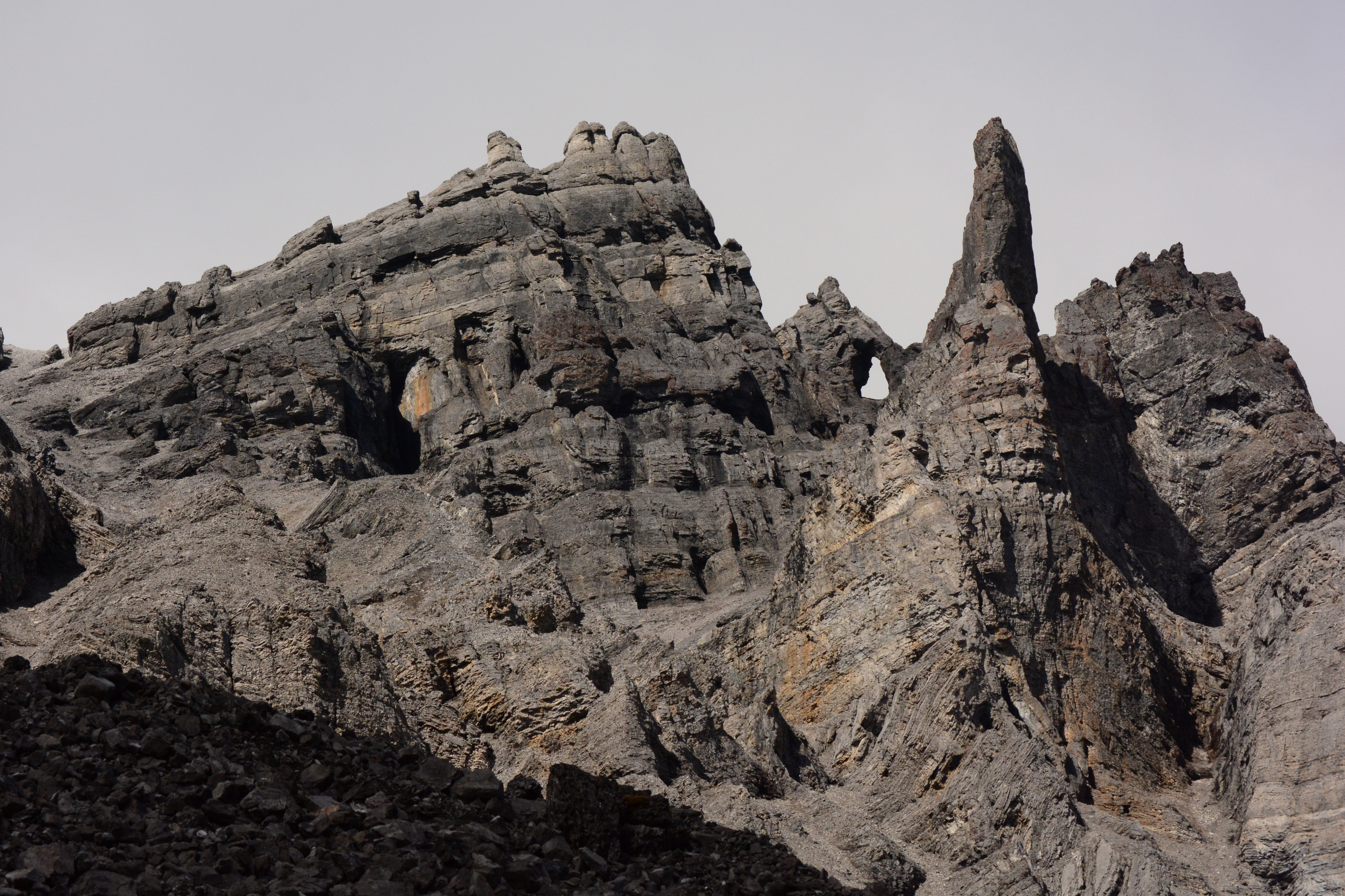 Rock formations in Gates of the Arctic National Park.